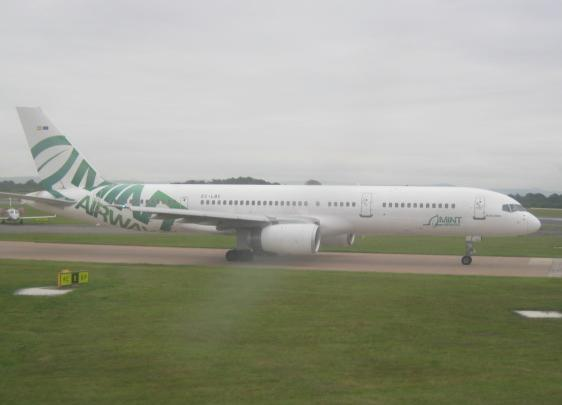 A Mint Airways Boeing 757-200 at Manchester Airport bound for Palma. Operating for Jet2